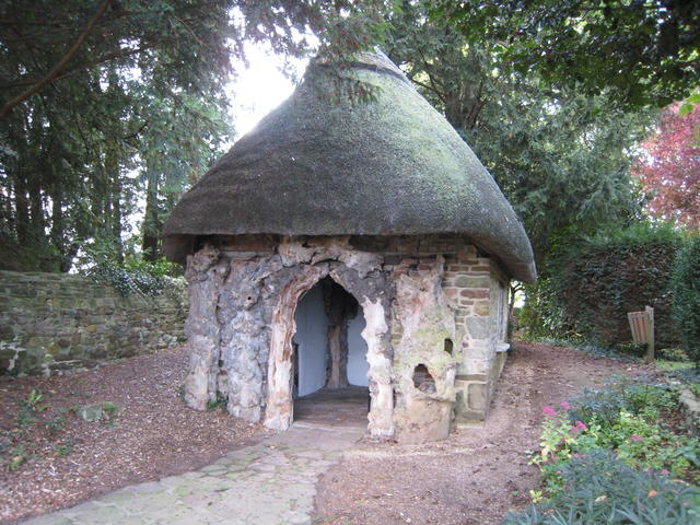 Temple of Vaccinia. This thatched building was built in the grounds of 585488 in the early 1800s for Edward Jenner by the local Vicar. It was here that Jenner ran a surgery for the poor at which he gave free vaccinations.